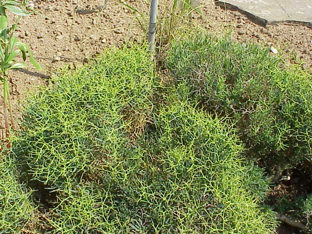 Species: Bupleurum spinosum Family: Apiaceae Image No. 3